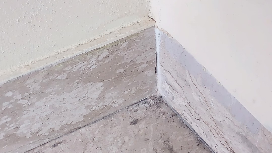 Visual comparison between a protruding skirting board (left) and a flush wall (right), both in marble.